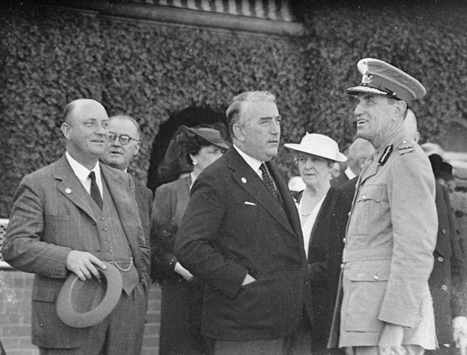 Premier of NSW Alexander Mair (left) with Prime Minister Robert Menzies (centre) and Governor of NSW Lord Wakehurst (right) at the opening of the Sydney Royal Easter Show, March 1940.